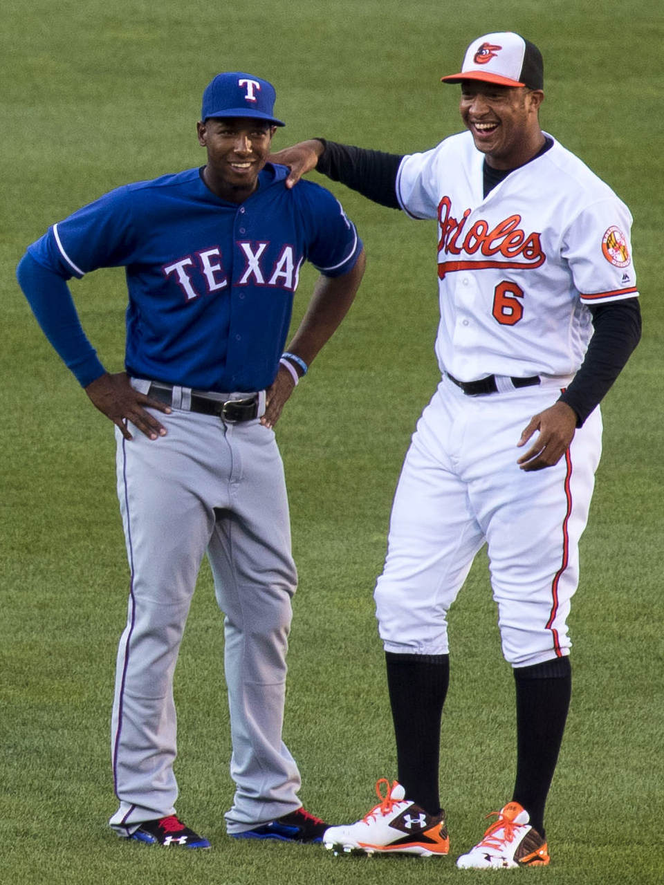 Jonathan Schoop (right) and Jurickson Profar